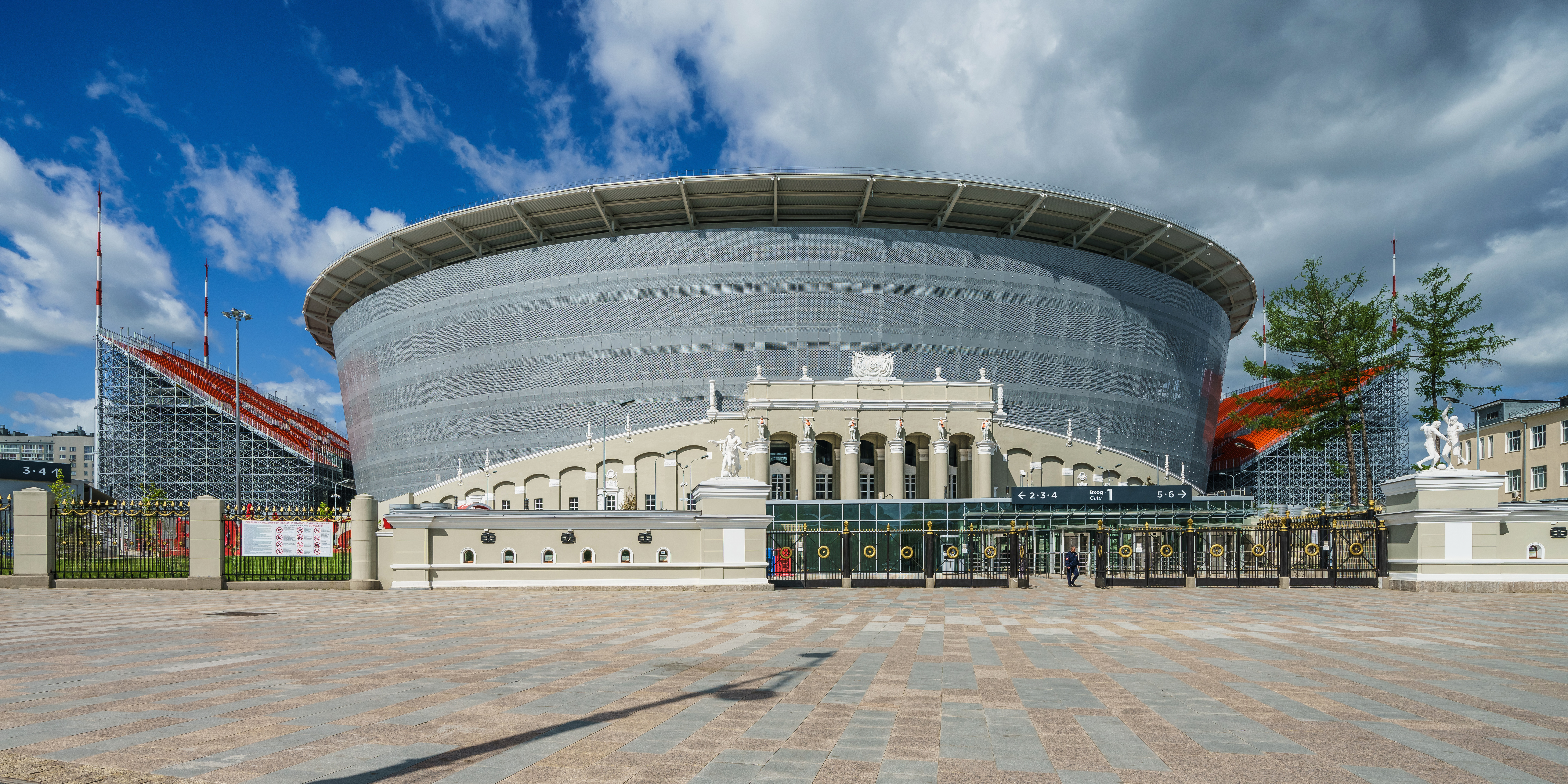 Central Stadium (or Ekaterinburg Arena) in Ekaterinburg, Russia